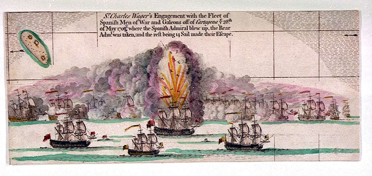 Sr. Charles Wager's Engagement with the Fleet of Spanish Men of War and Galleons off of Cartagena on 28th of May 1708 where the Spanish Admiral blew up, the Rear Admiral was taken, and the rest being 14 sail made their Escape